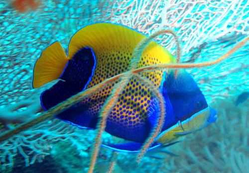 Author: Sami Salmenkivi en: The Fish Directory